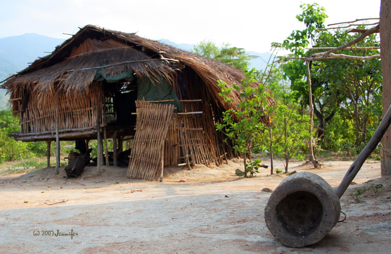 A house of a Raglai Ethnic family, Bac Ai district, Ninh Thuan province, Vietnam